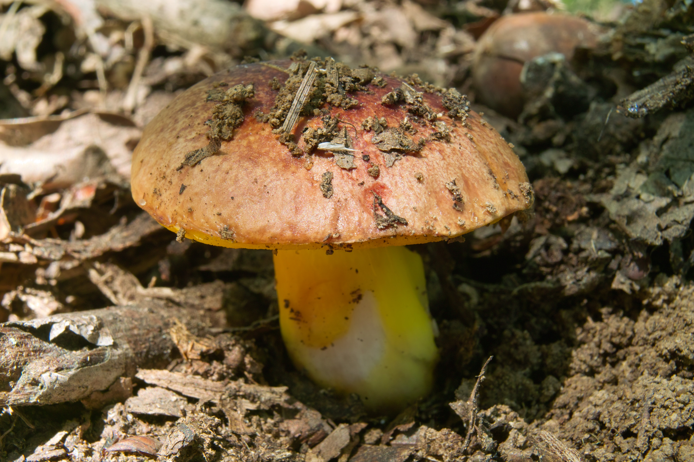 Aureoboletus gentilis, Vrbenské rybníky, Czech republic